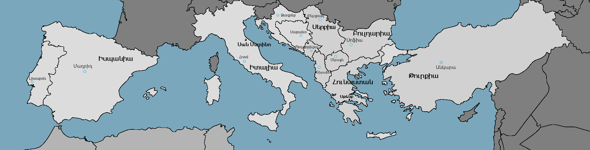 Map of South Europe